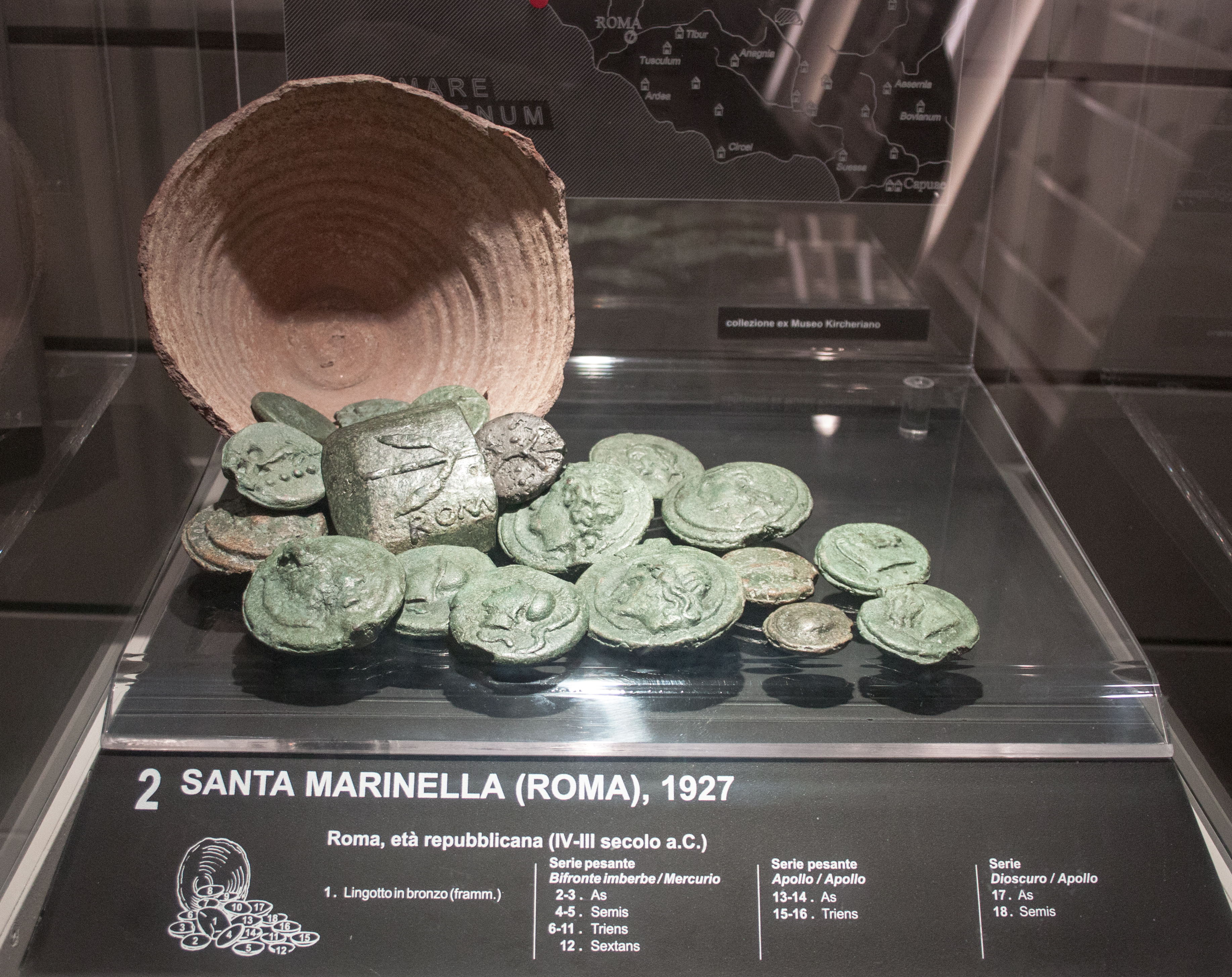 Exhibition of the history of money, Santa Marinella hoard